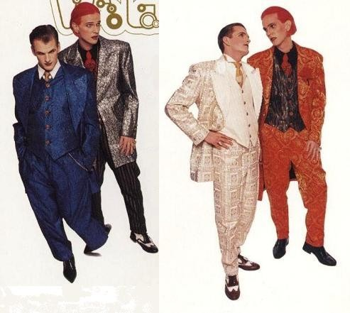 I own these photos. I, Matt Quigley, was in Vaganza and these images are my property.